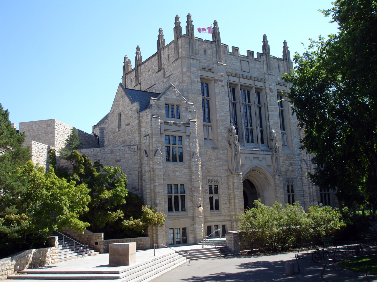 The original, Collegiate Gothic-style Chemistry Building was built in 1924 and has undergone major changes since. A Modernist, almost windowless addition was built in 1966, and the entire building was renamed after chemist and alumnus Thorbergur Thorvaldson. A smaller Pharmacy addition was completed in 1988, and the four-floor neo-Collegiate Gothic-style Spinks Addition was finished in 2003. Featured photo on the J.B. Black Estates web site